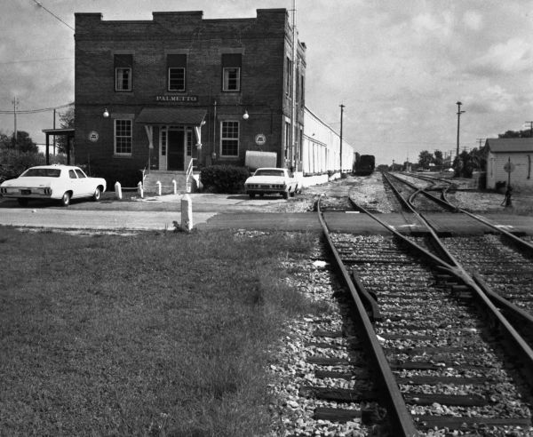 Railroad depot in Palmetto, Florida